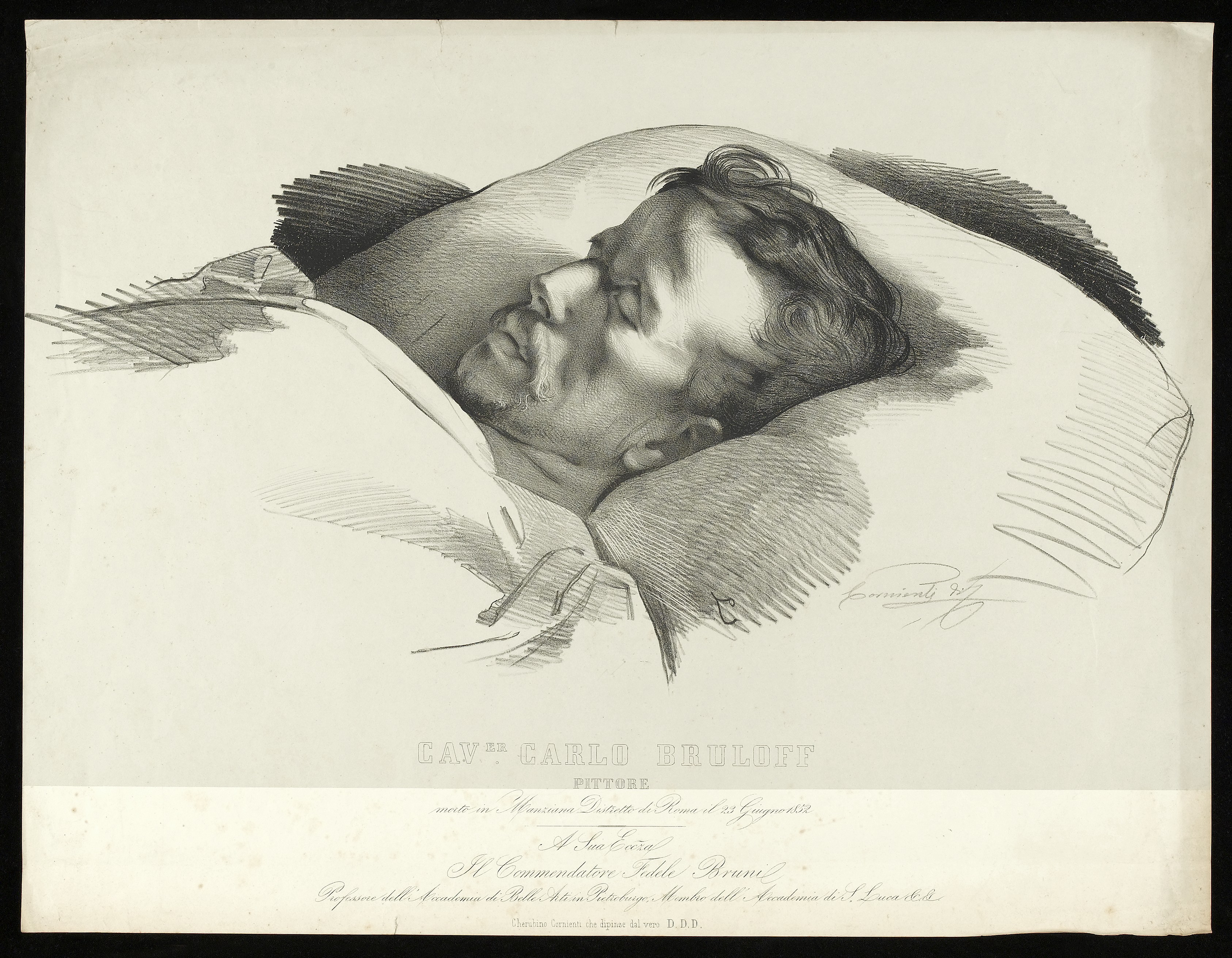 Karl Pavlovich Br?i?ullov (Bryullov) on his deathbed. Iconographic Collections Keywords: Karl Pavlovich Briullov; Cherubino Cornienti